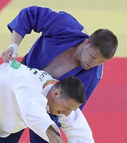 Judo at the 2016 Summer Olympics – Men's 100 kg